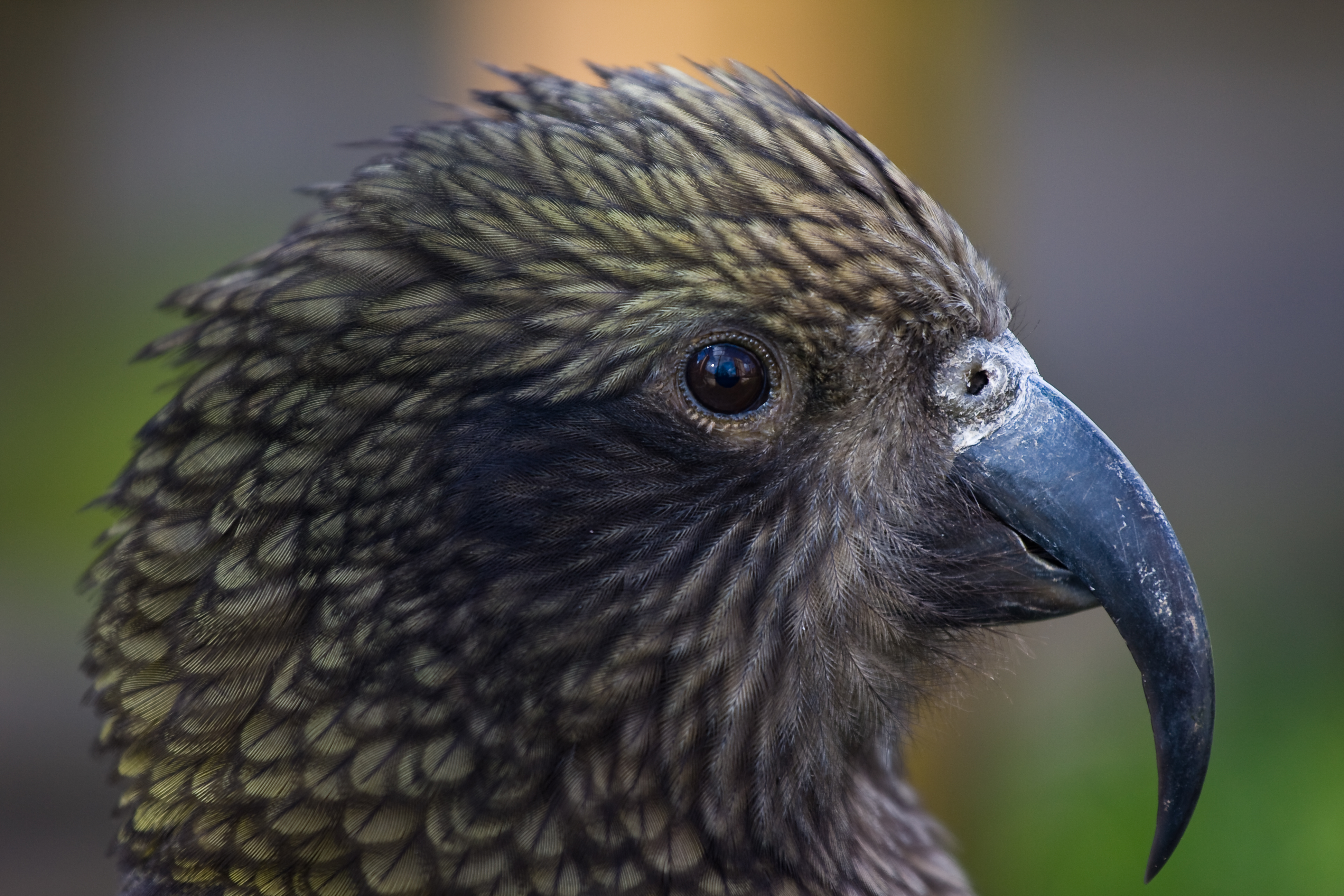 Kea at Twycross Zoo, England. Close up of head and neck.